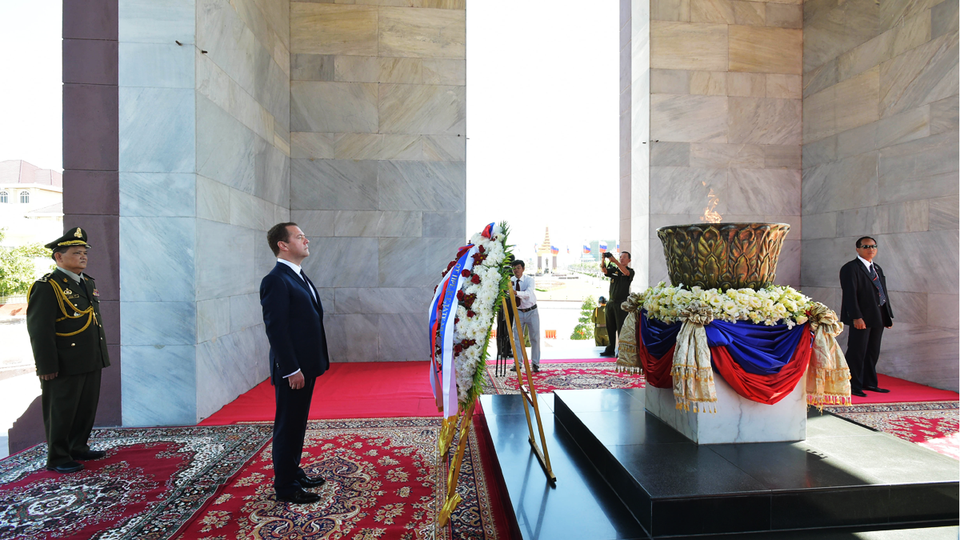 Dmitry Medvedev lays wreaths at the Independence Monument